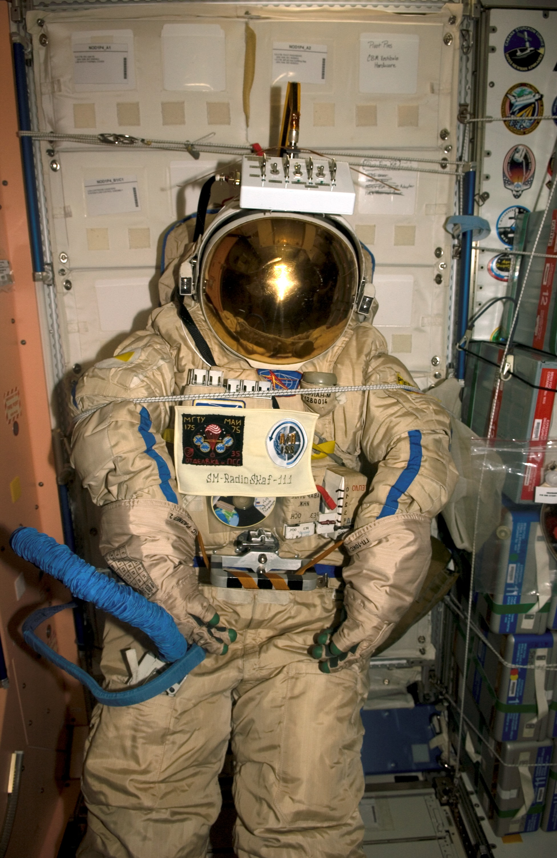 An old Russian Orlan spacesuit is photographed in the Unity node of the International Space Station, which will be released by hand from the space station during a spacewalk Feb. 3, 2006. Outfitted with a special radio transmitter and other gear, the spacesuit comprises a Russian experiment called SuitSat. It will fly free from the station as a satellite in orbit for several weeks of scientific research and radio tracking, including communications by amateur radio operators. Eventually, it will enter the atmosphere and be destroyed.